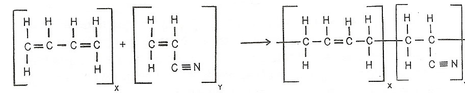 Copolimerização de butadieno e acrilonitrilo para obtenção do NBR